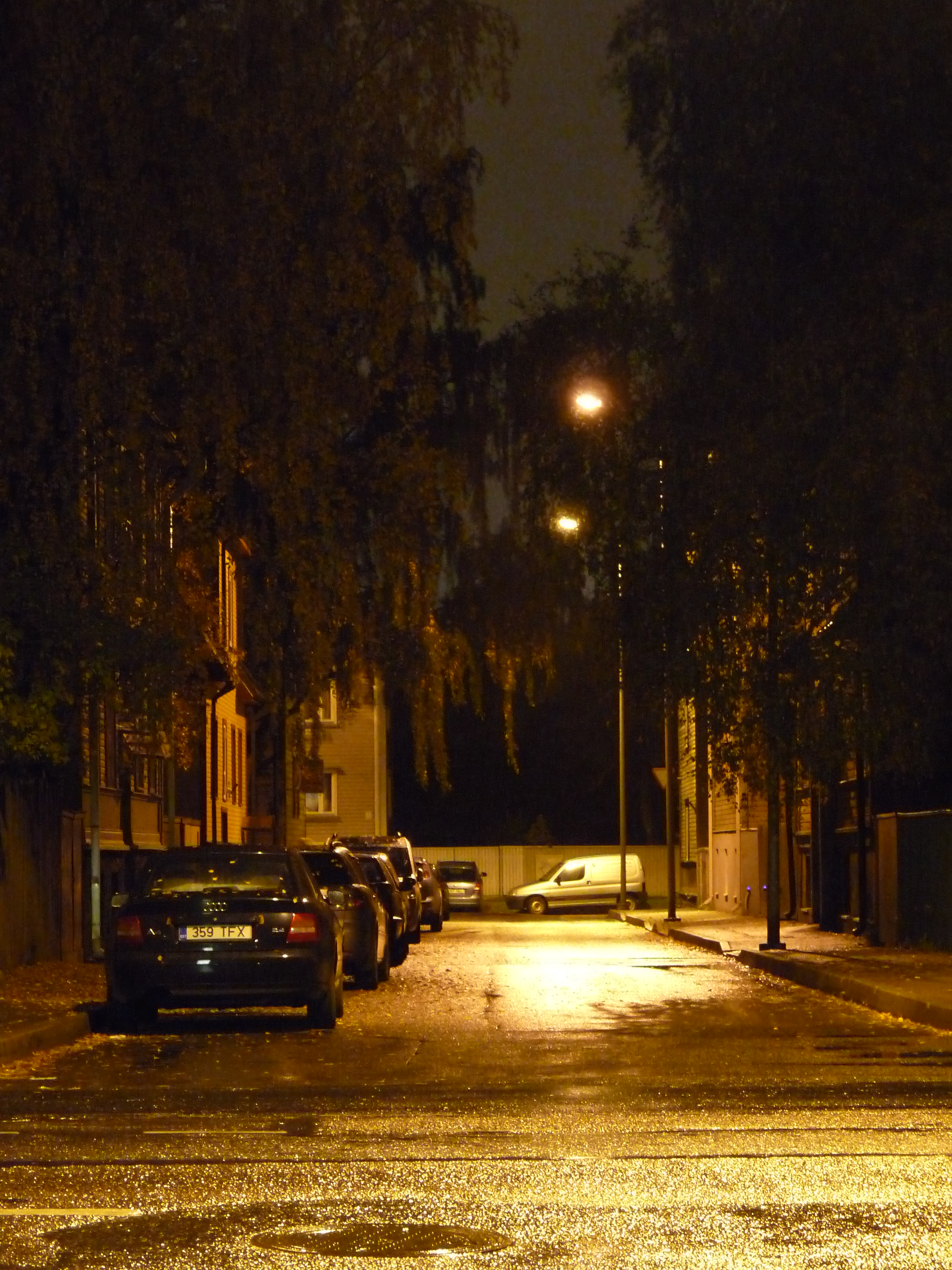 Ülase street in Tallinn, Estonia